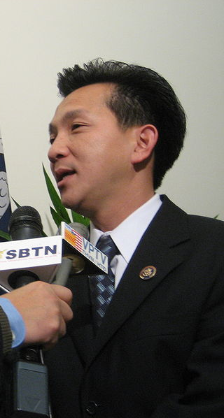 Congressman Ed Royce and newly-elected Member of Congress Anh "Joseph" Cao at a press conference outside of Congressman Cao's new office in the United States Capitol.